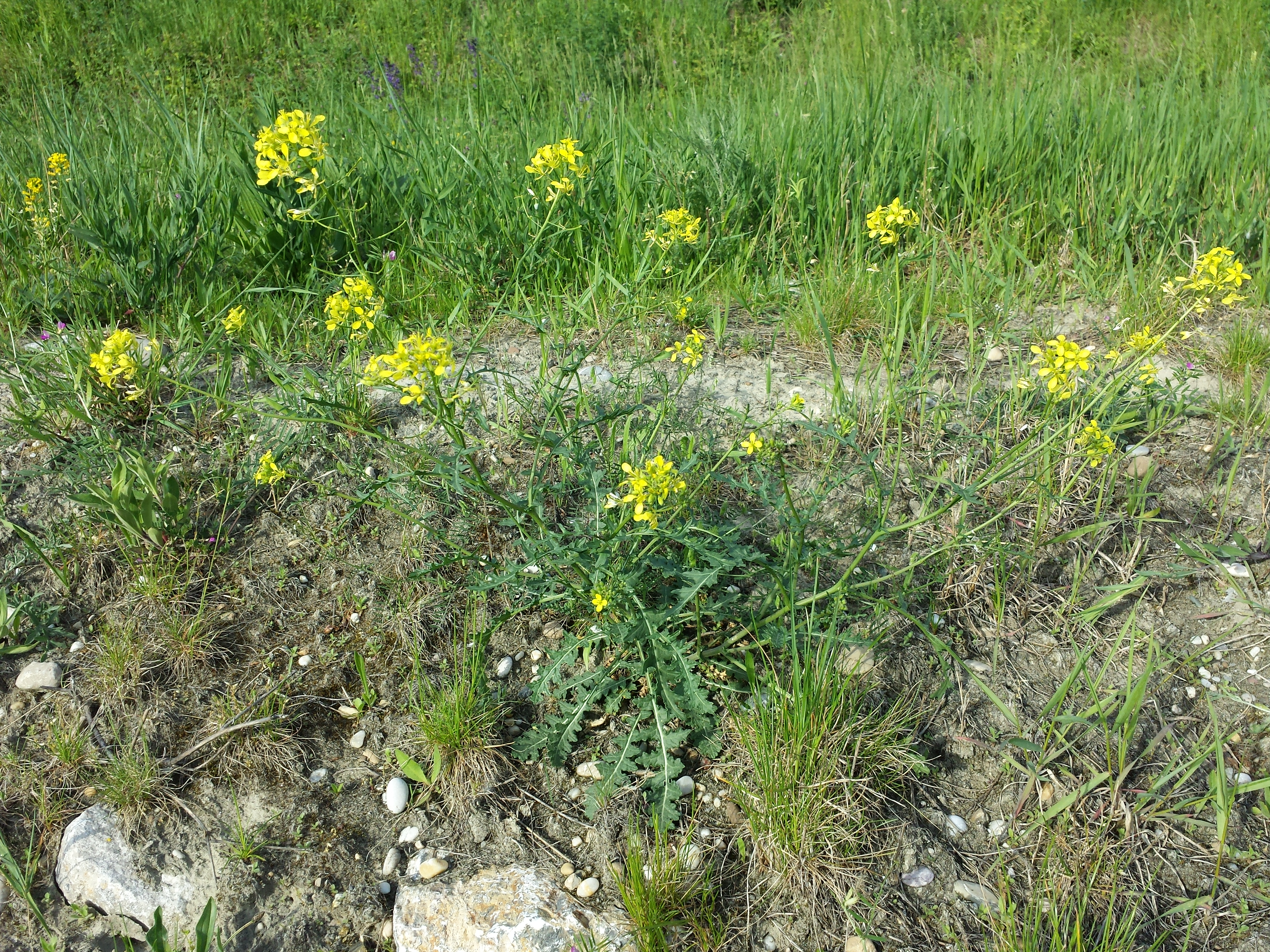 Habitus Taxonym: Erucastrum nasturtiifolium ss Fischer et al. EfÖLS 2008 ISBN 978-3-85474-187-9 Location: Neue Donau, district Korneuburg, Lower Austria - ca. 160 m a.s.l. Habitat: slope